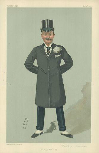 Men of the Day No.0936: Caricature of Maj John Eustace Jameson MP. Caption reads: "the Major from Clare"